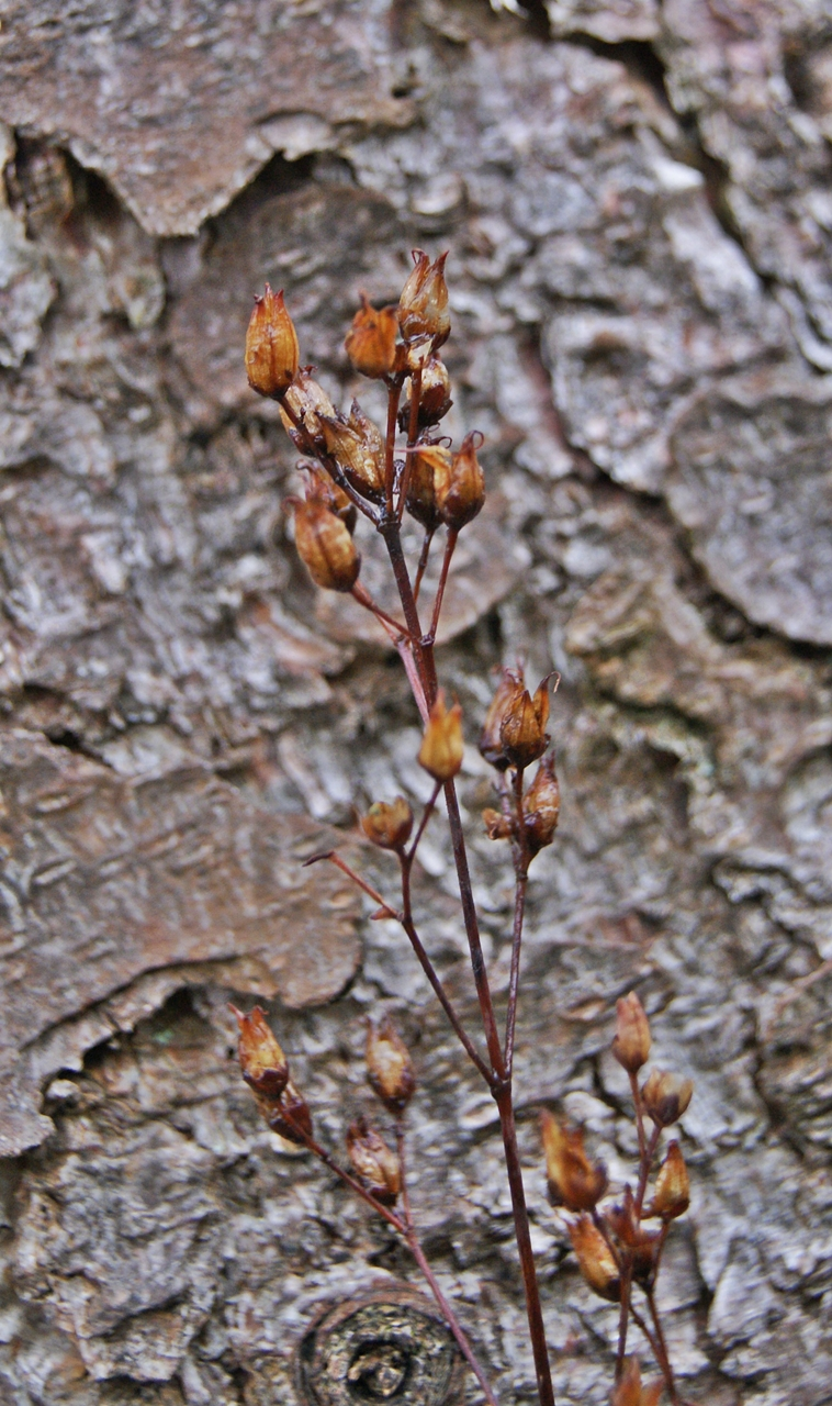 Hypericum pulchrum, march.